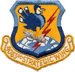 Emblem of the 4083d Strategic Wing